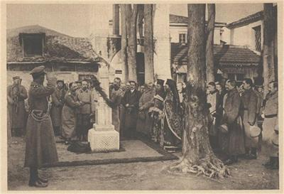 Monument build by bulgarian autorities during first world war in Drama in honor to Rudolph von Eschwege